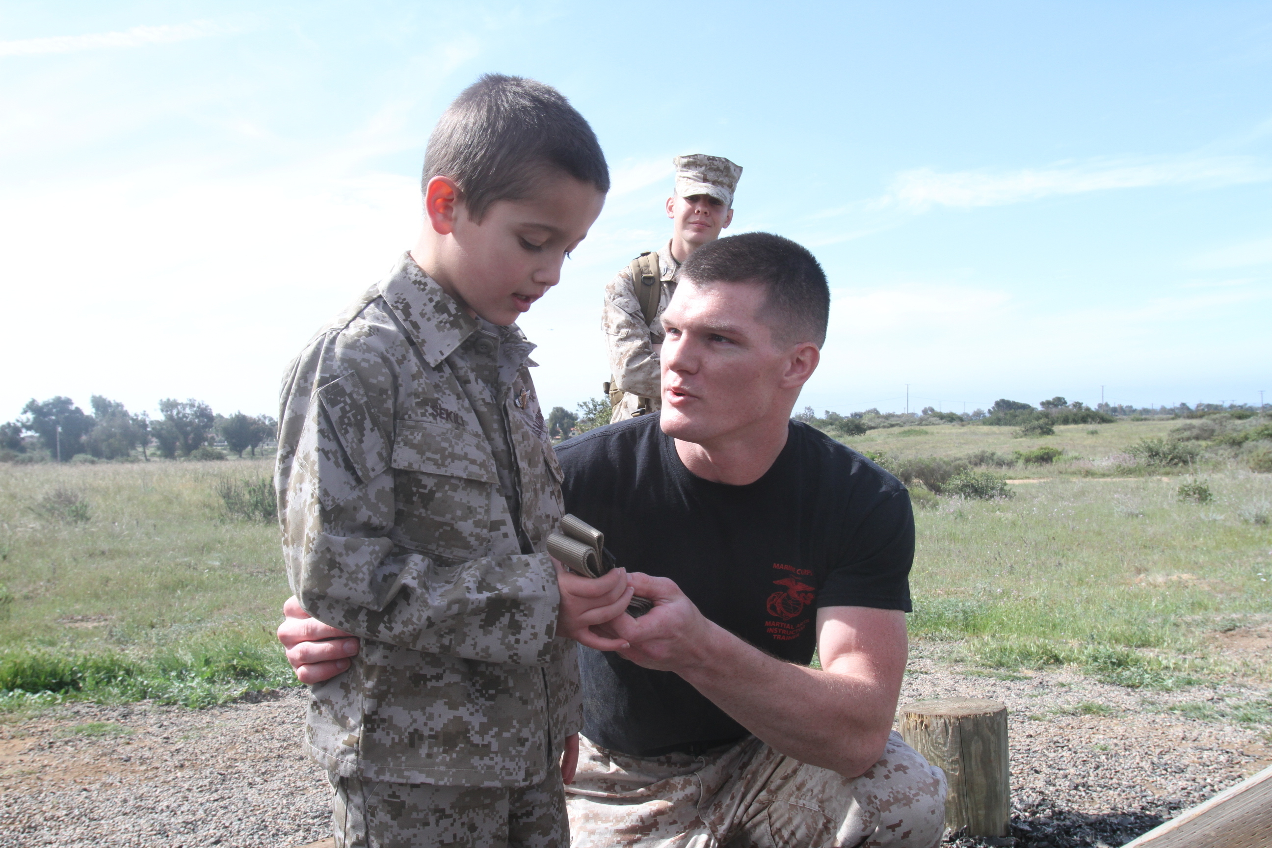 Staff Sgt. Keith Becker, a martial arts instructor trainer serving with Weapons Field Training Battalion, awards a tan belt to Justin Sekili, an 8-year-old native of Green Oaks, Ill., after training with the instructors during a visit to Edson Range here, March 28, 2013. Sekili has a heart defect that required him to undergo multiple open-heart surgeries. The Make-A-Wish Foundation helped Sekili achieve his dream of becoming a Marine for a day. Becker, a 26-year-old native of Long Island, N.Y., said Sekili never quit during any event, even when he was too small to get over the larger walls on the obstacle course. (Official Marine Corps photo by Lance Cpl Dabney)